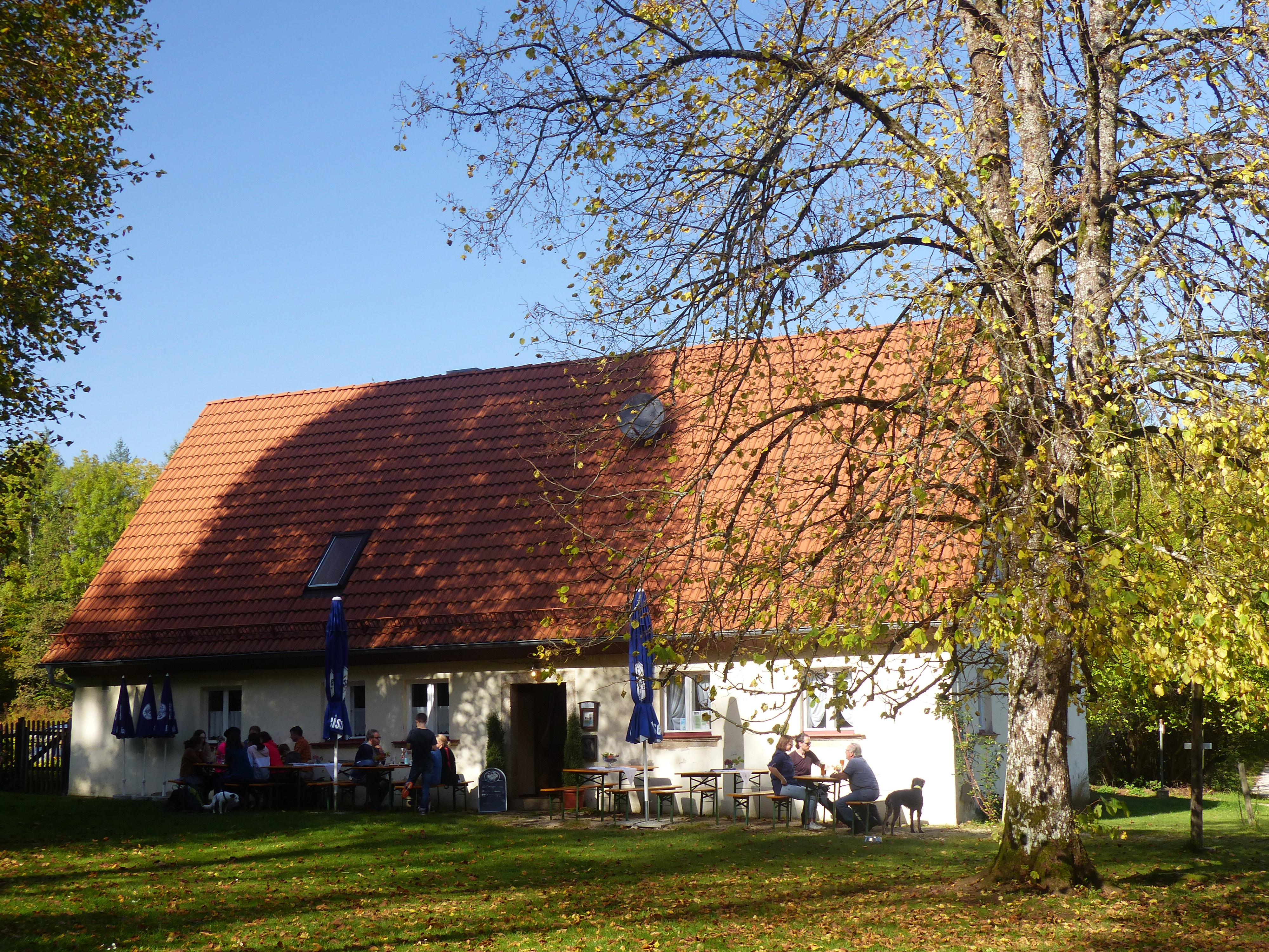 The solitude Schweigelberg, a district of the municipality of Gößweinstein